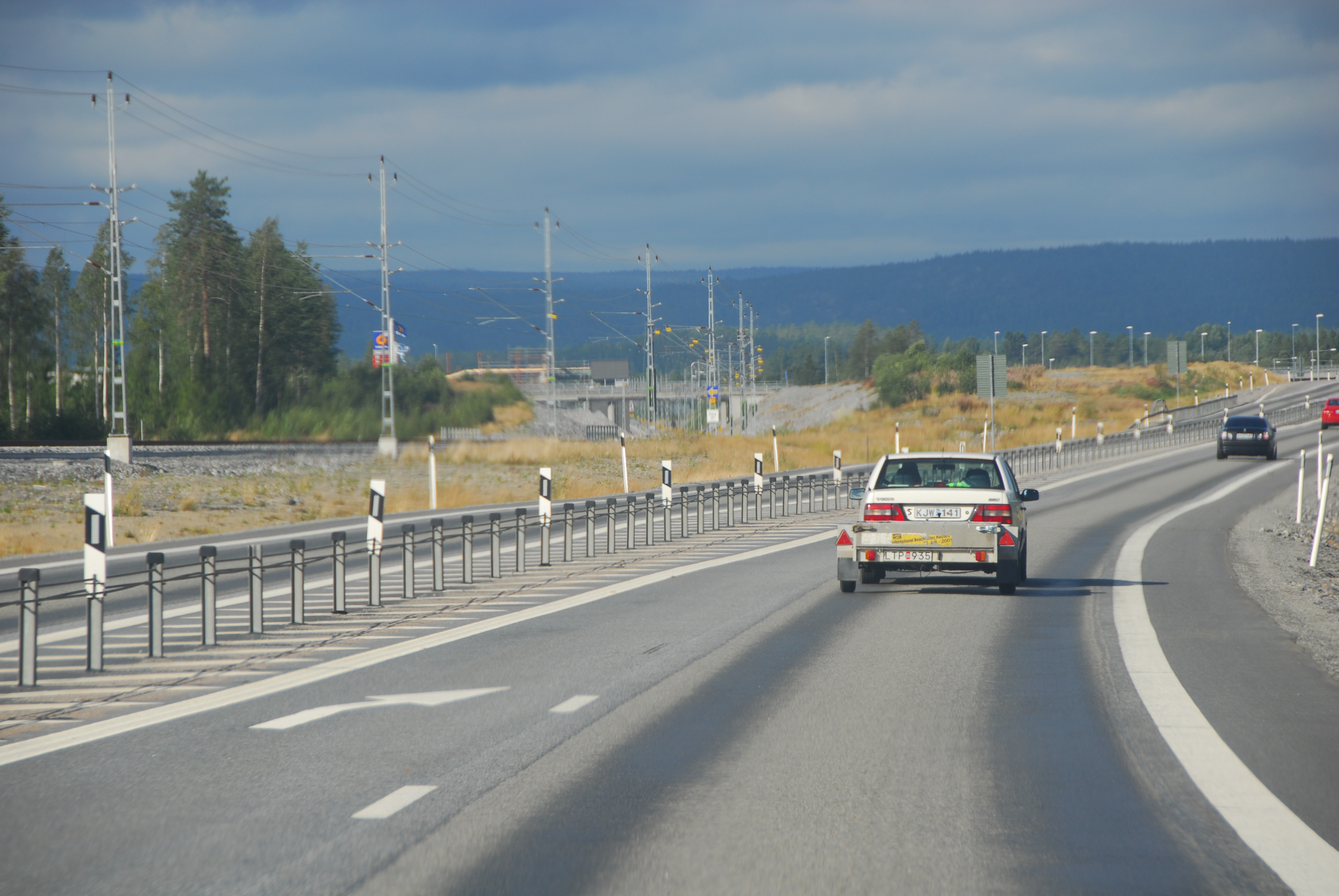 European Route E4 and the Bothnia Line somewhere between Umeå and Örnsköldsvik in Sweden.